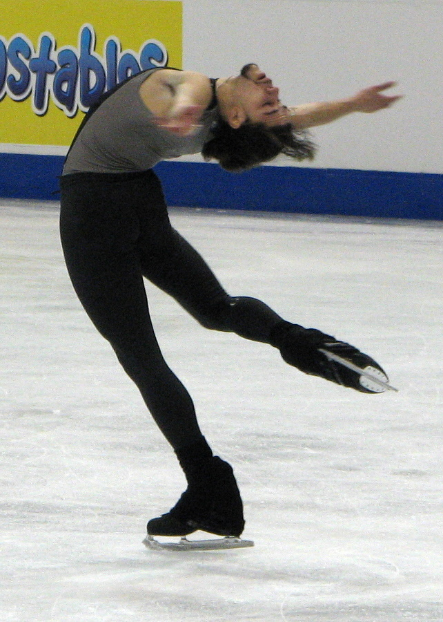 Rohene Ward performs a layback spin at the 2008 U.S. Figure Skating Championships in St. Paul, MN